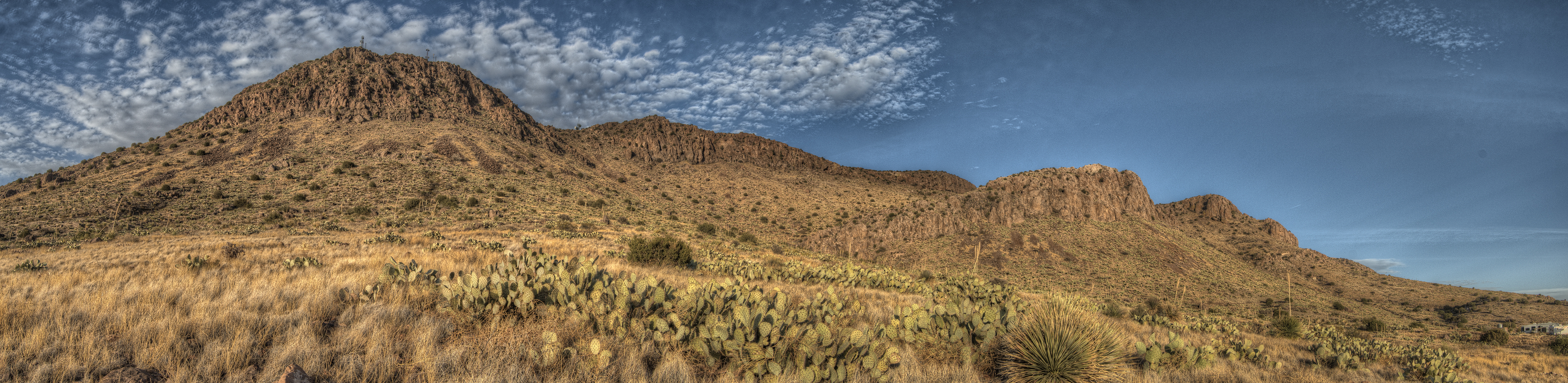 Rockhound State Park panorama. Looking north in late afternoon, this is most of the park. There is some over the ridge on the right; the campground is to the right. Actually there is a separate piece of the park located about four miles to the south. It's called Spring Canyon.